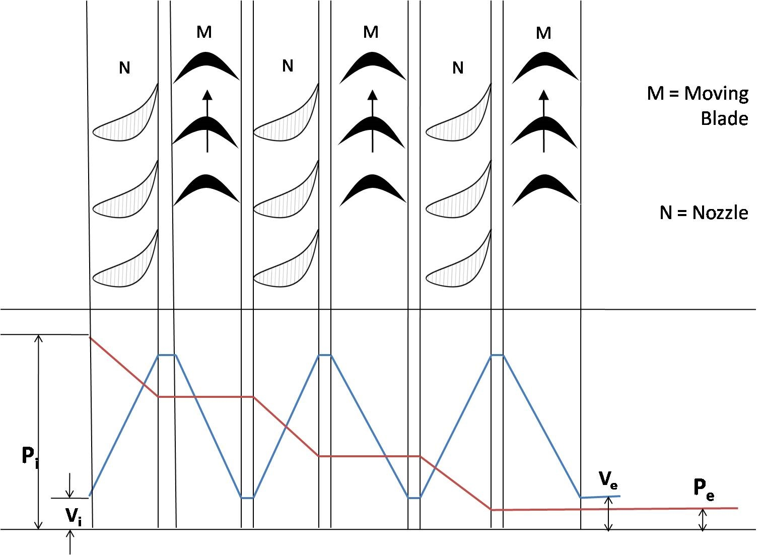 2nd and 3rd stage row identifiers corrected